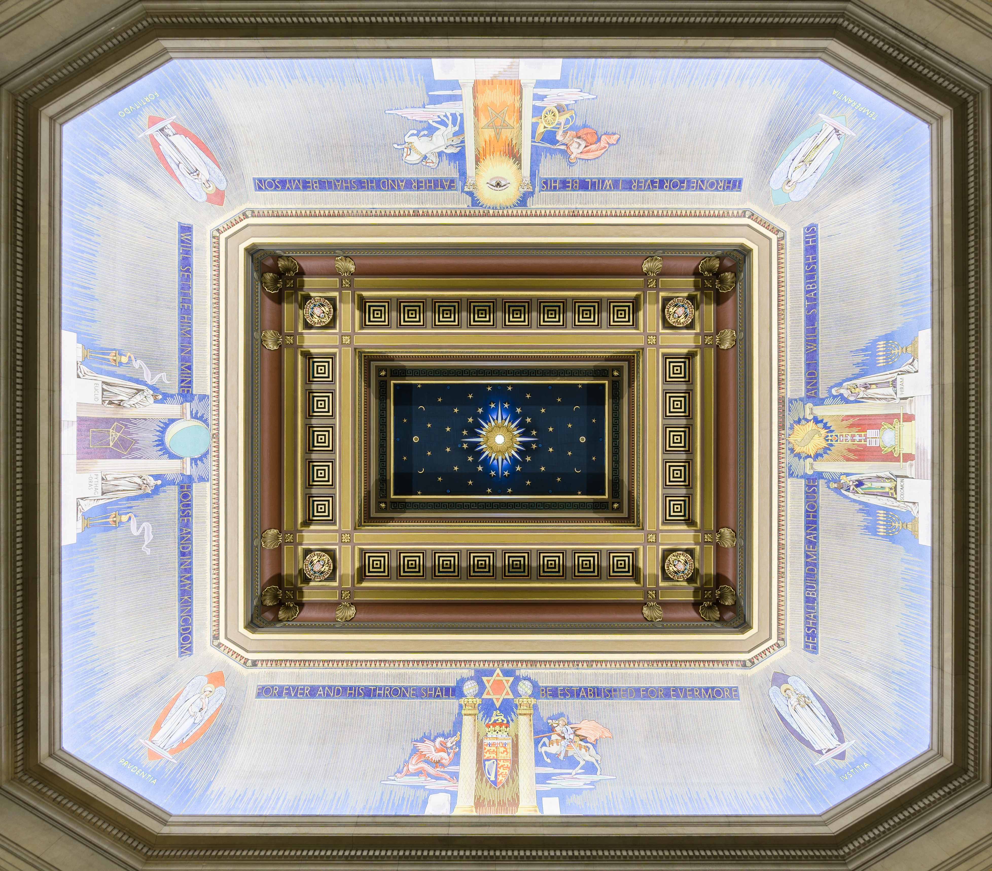 Ceiling of the Grand Temple, Freemasons' Hall. In the centre is the celestial sky. The border has the arms of the United Grand Lodge of England at each corner. Surrounding this is a 4.5m deep mosaic cornice that took nearly two years to make. At the top (east) is the Ark of the Covenant and Jacob's ladder with King Solomon and King Hiram, who built the first temple at Jerusalem. At the right (north) are St George and the Dragon, and the arms of the Duke of Connaught and Strathearn (who was Grand Master when the hall was built). At the bottom (west) are Euclid and Pythagoras, whose 47th Problem is represented by three squares. At the left (south) is Helios the sun god on his chariot, the All-Seeing Eye and a five pointed star. The corner angels represent the four cardinal virtues: Prudence, Temperance, Fortitude and Justice. The Biblical text is from Chronicles I 17:12-14. Wikidata has entry Q1453586 with data related to this item.